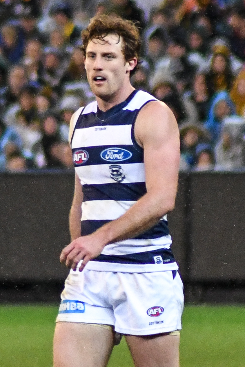 Jed Bews of Geelong during the 2018 AFL round 20 match between Richmond and Geelong at the Melbourne Cricket Ground on Friday, 3 August 2018 in Melbourne, Victoria.